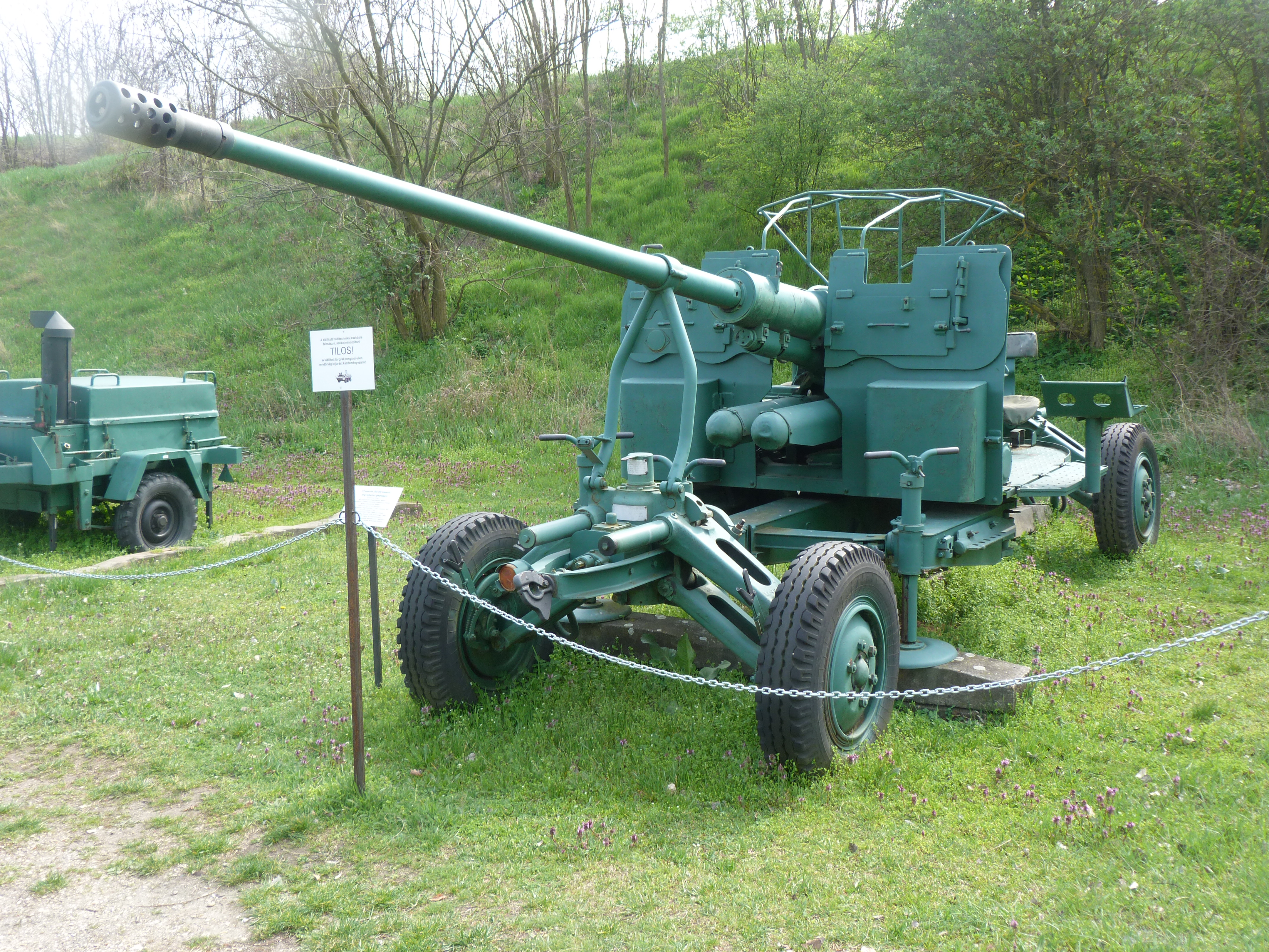 Live on the 31st of March, 2014. Komárom, Hungary. The Monostori Fortress. Open air exibition of the military equipement of the Hungarian People's Army. Photos of the parts and the fortress itself in the Metapolisz DVD line. ©© Derzsi Elekes Andor, Budapest, 2014, You are authorised to use these photos and vids under Creative Commons – even for commercial, for profit purposes. Photos must be attributed to Derzsi Elekes Andor. All of the photos and vids in the Metapolisz DVD line are under Creative Commons and can be used even for commercial – for profit – purposes. Recommended Citation Derzsi Elekes Andor: Metapolisz DVD line